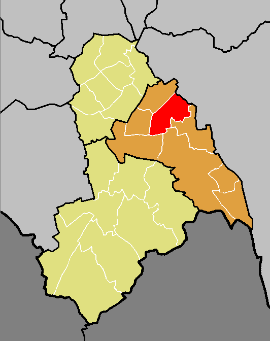 The ward of Ashburton (red) shown within the Croydon Central constituency (orange) within the London Borough of Croydon (yellow).